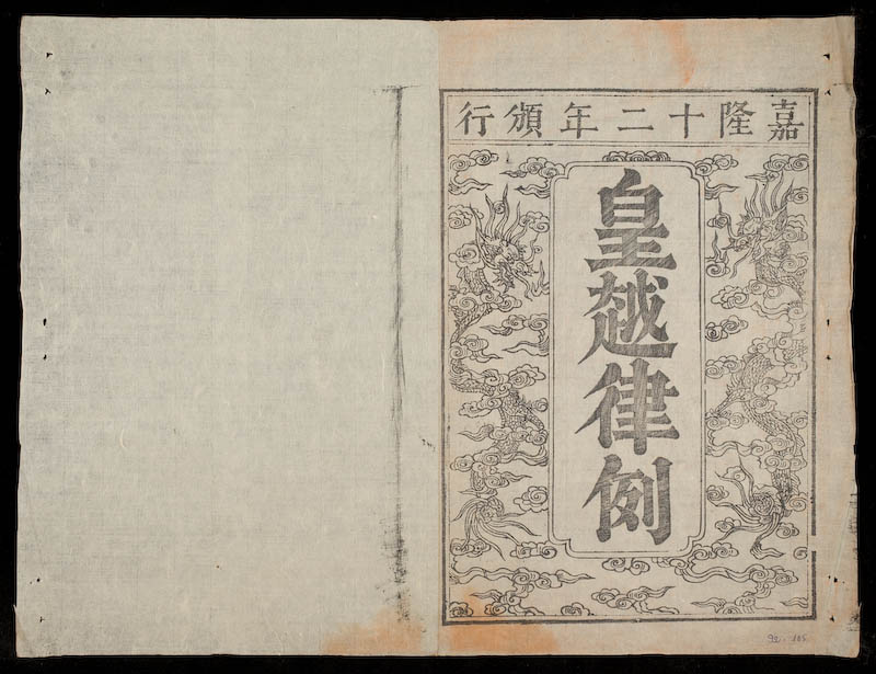 Hoàng Việt luật lệ, also called "Gia Long Code", adopted by the Nguyen dynasty.